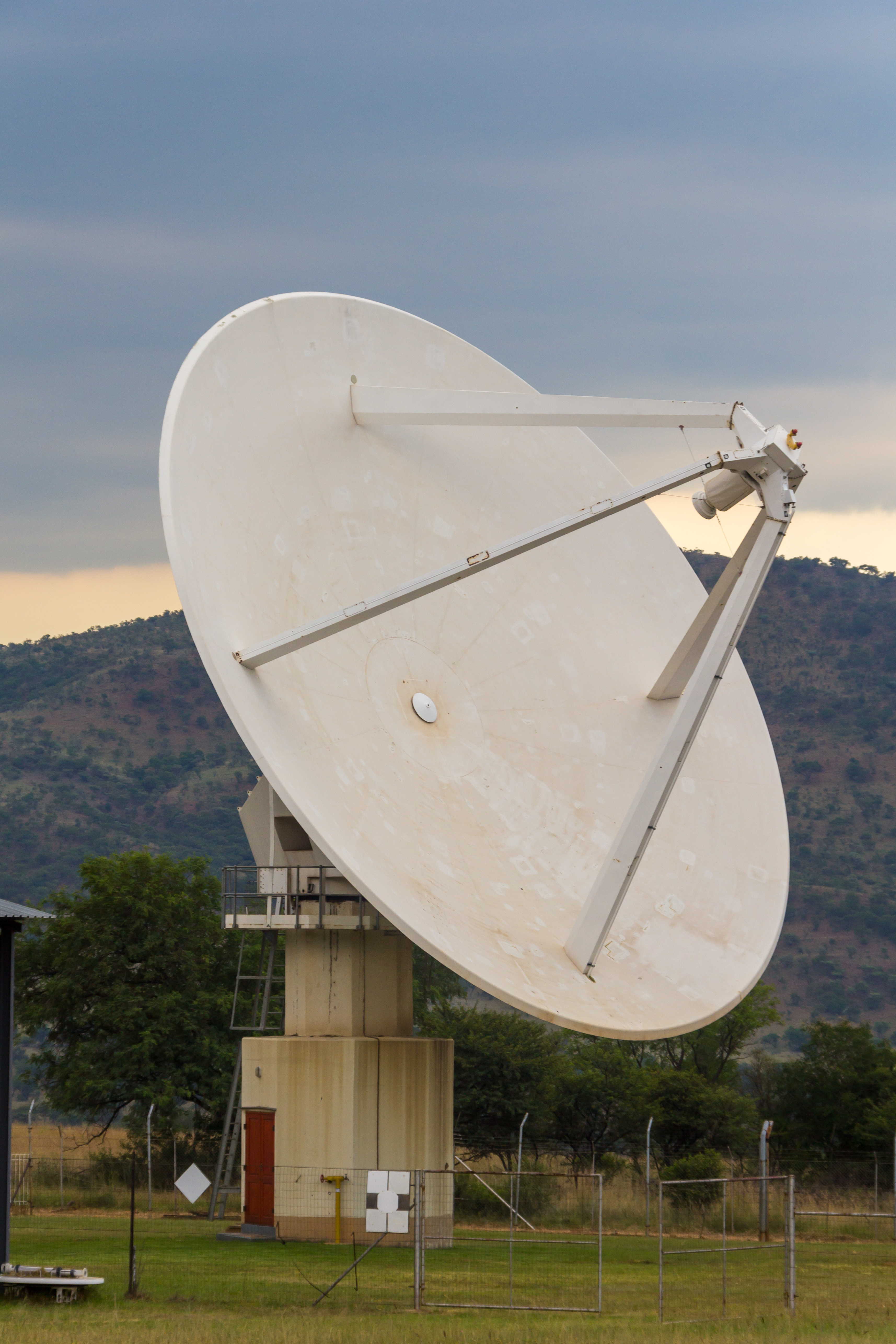 MeerKAT prototype dish at Hartebeesthoek Radio Astronomy Observatory.